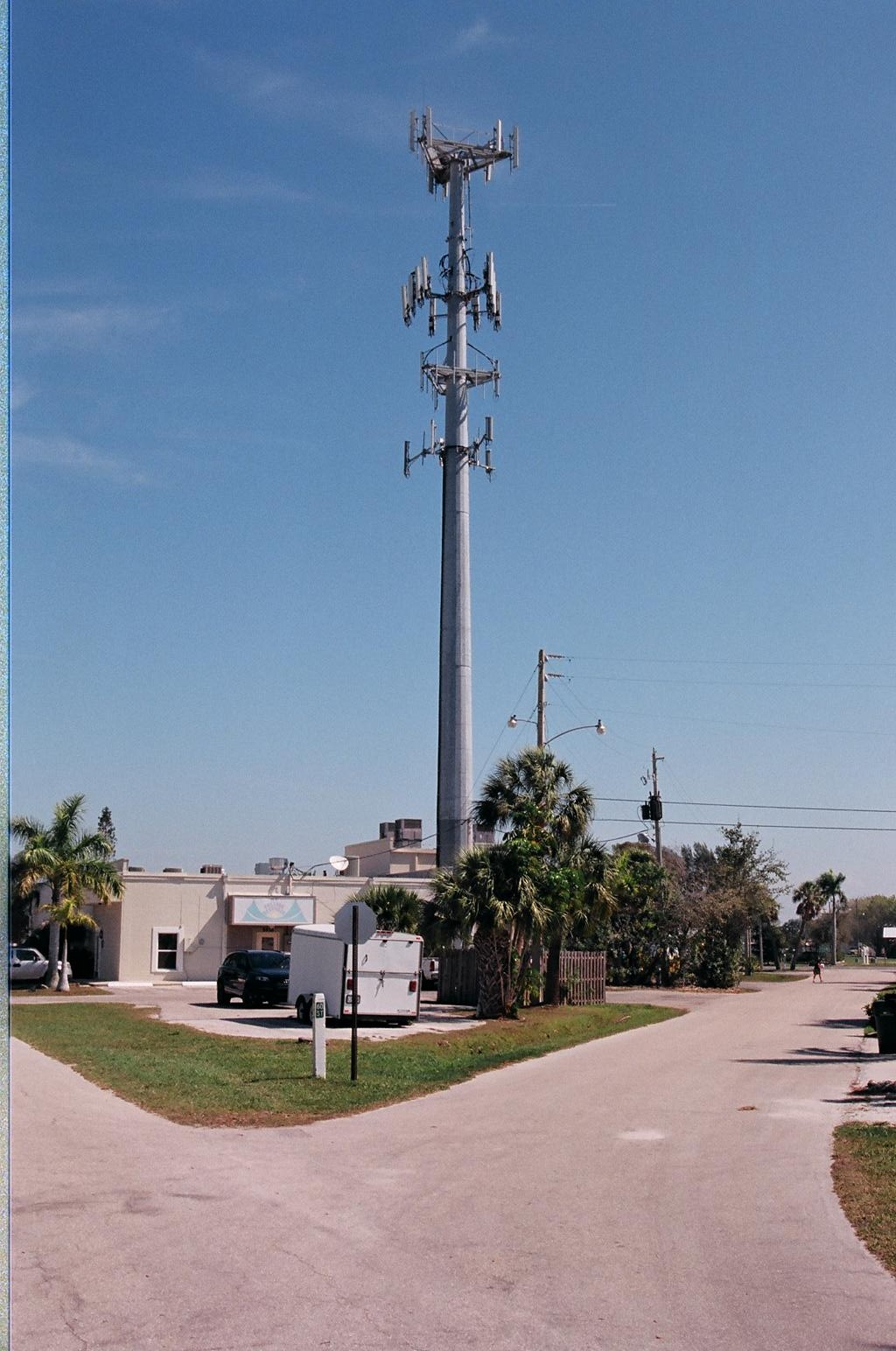 Cell phone tower in Holmes Beach, Florida, USA